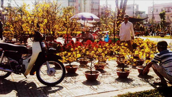 Tet flower market in Lang Hoa, Go Vap dist, Saigon